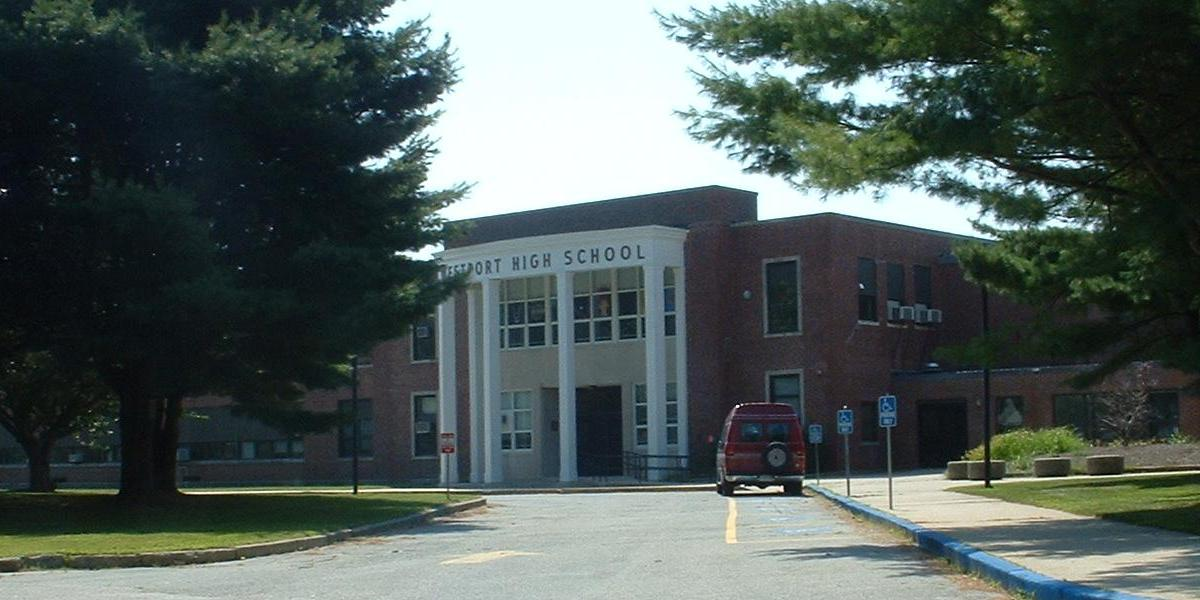 Westport High School's main entrance.